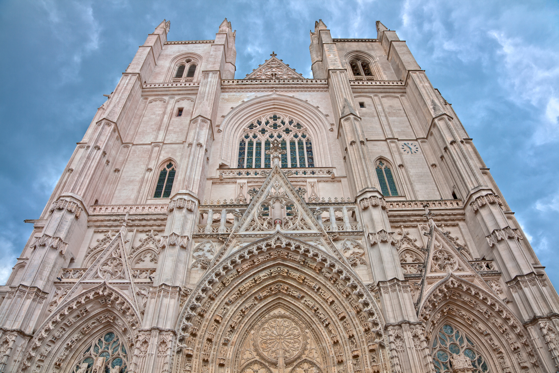 Wide-angle photo of Nantes Cathedral, France. HDR composite from multiple exposures.